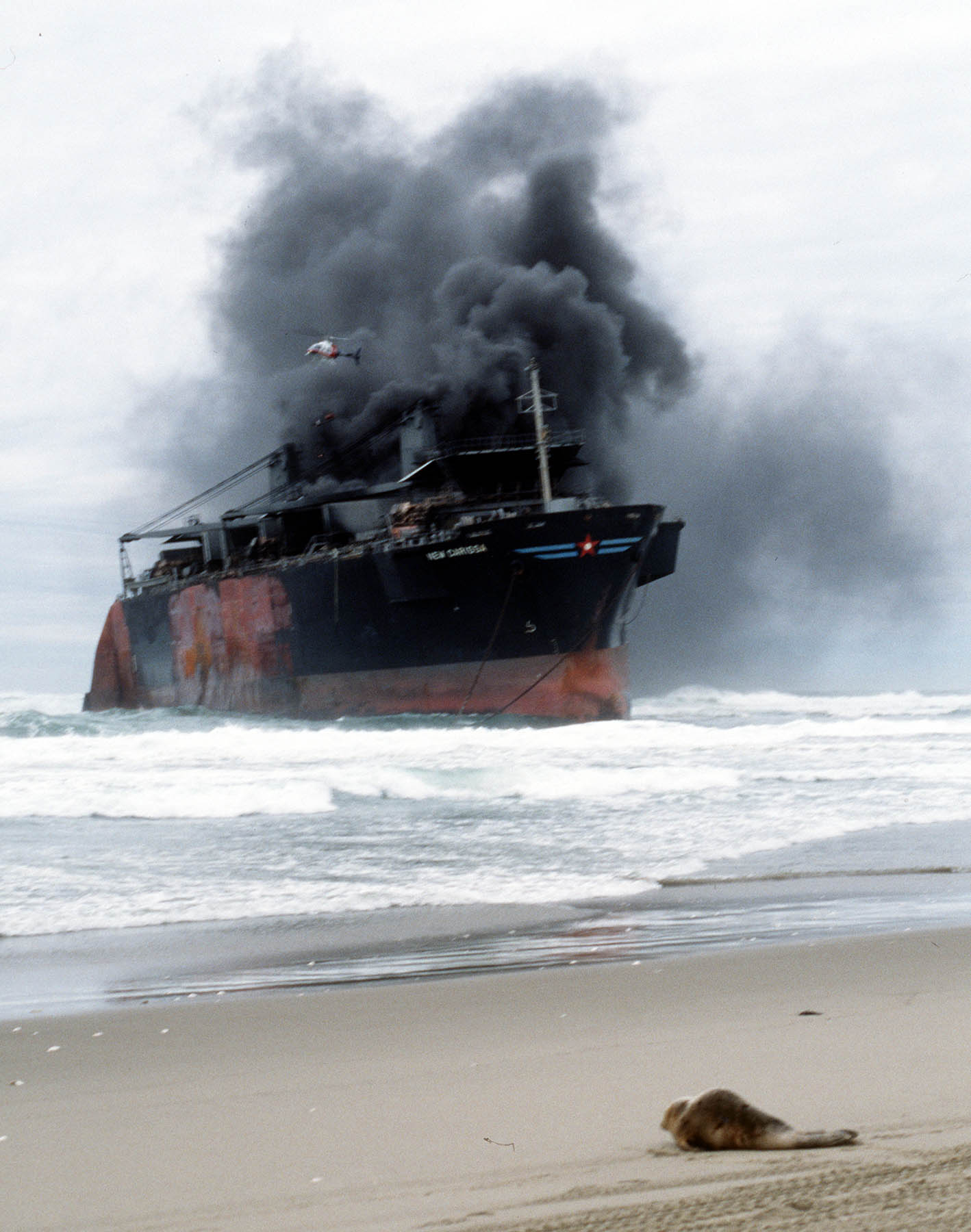 From - caption given is "Coos Bay, Ore.(Feb 12)--Coast Guard helps avert environmental castastrophe after the bulk carrier New Carissa ran aground Feb. 4 one mile north of Coos Bay, Oregon and began to leak oil. The ship's remaining fuel was intentionally ignited to help prevent nearly 400,000 gallons of oil from reaching the shorline. USCG photo by BREWER, BRANDON" For reference: PLS ImageID: 1621 Picture Desk ImageID: 00191